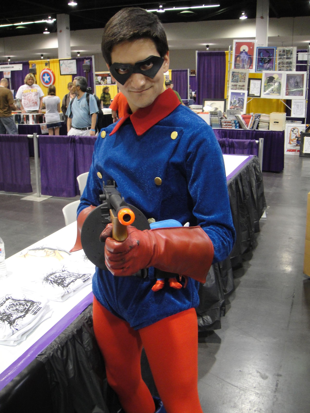 Wizard World Anaheim 2011 - Bucky Barnes Check out - A new costume featured every day! photo © 2011 taken by Doug Kline